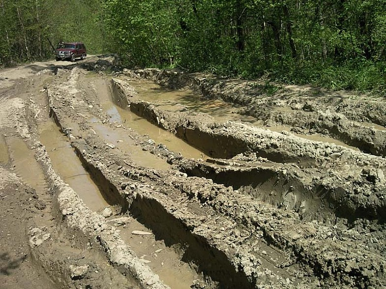 Колея по пути в Фанагорийскую пещеру